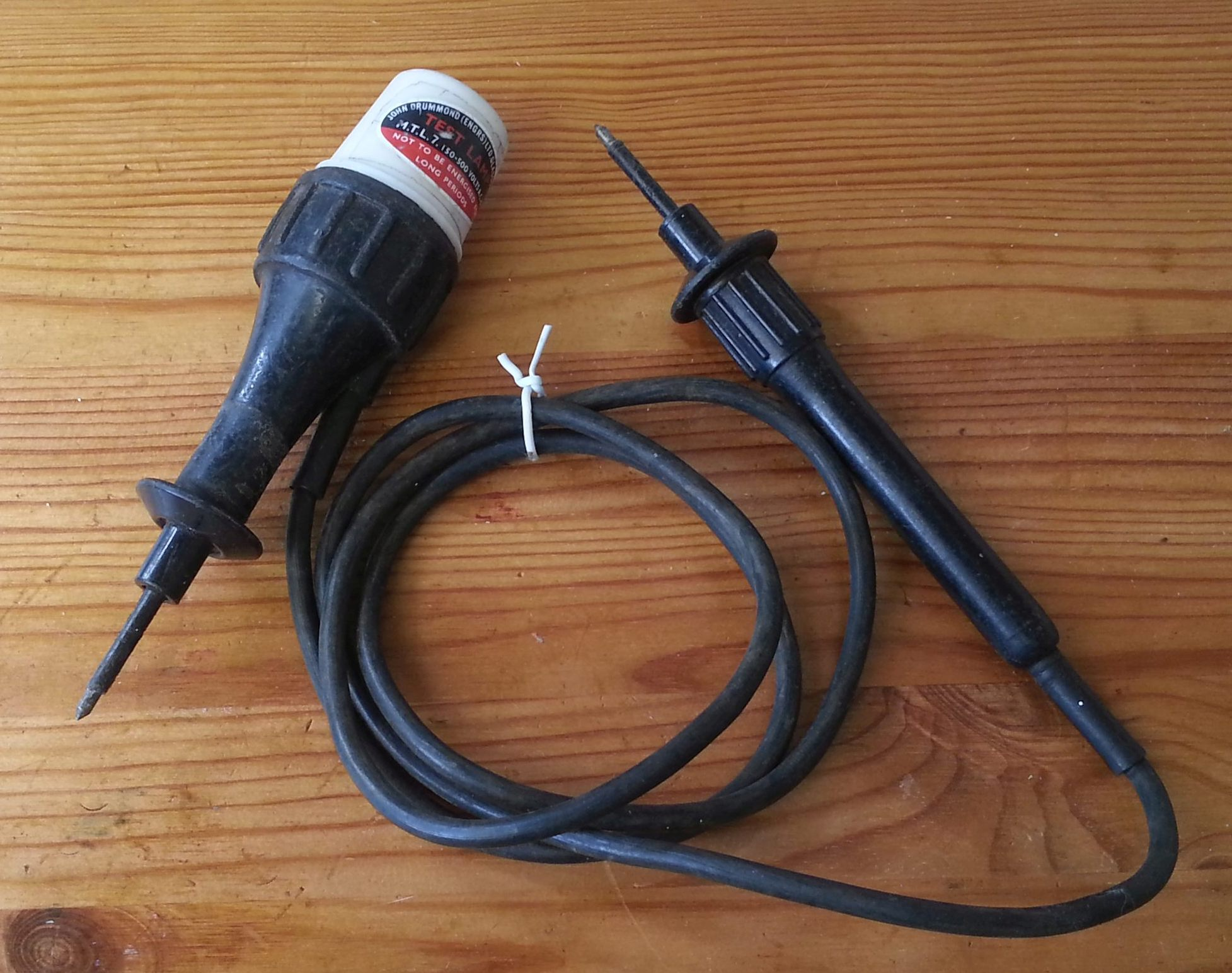 UK electrician's GS38-compliant[1] test lamp, fused in each test prod and current-limited to be safe for use at a variety of voltages up to 1000V